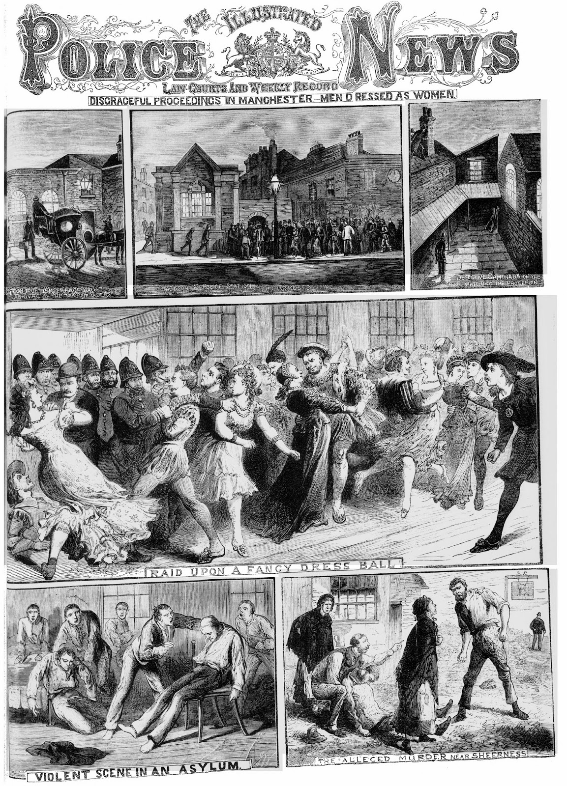 drawing depicting a police raid on a drag ball in Hulme (Manchester), in 1880, taken from The Illustrated Police News.